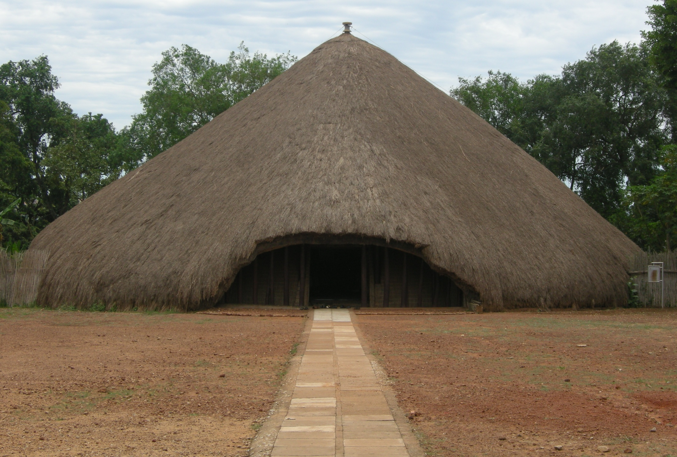 Kasubi Tombs, Kampala, Uganda, burned March 16, 2010